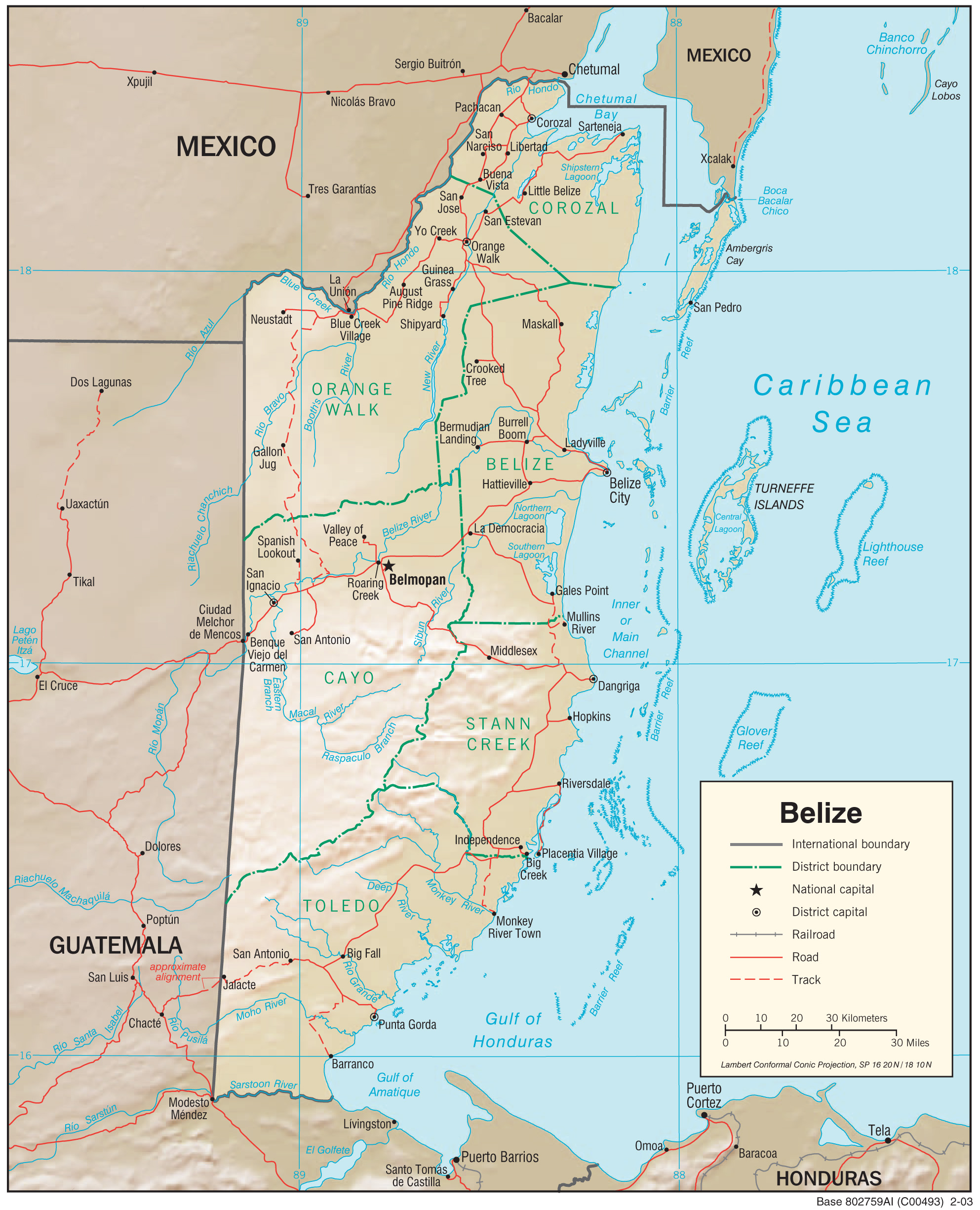 Topographic map of Belize (shaded relief), 2003.